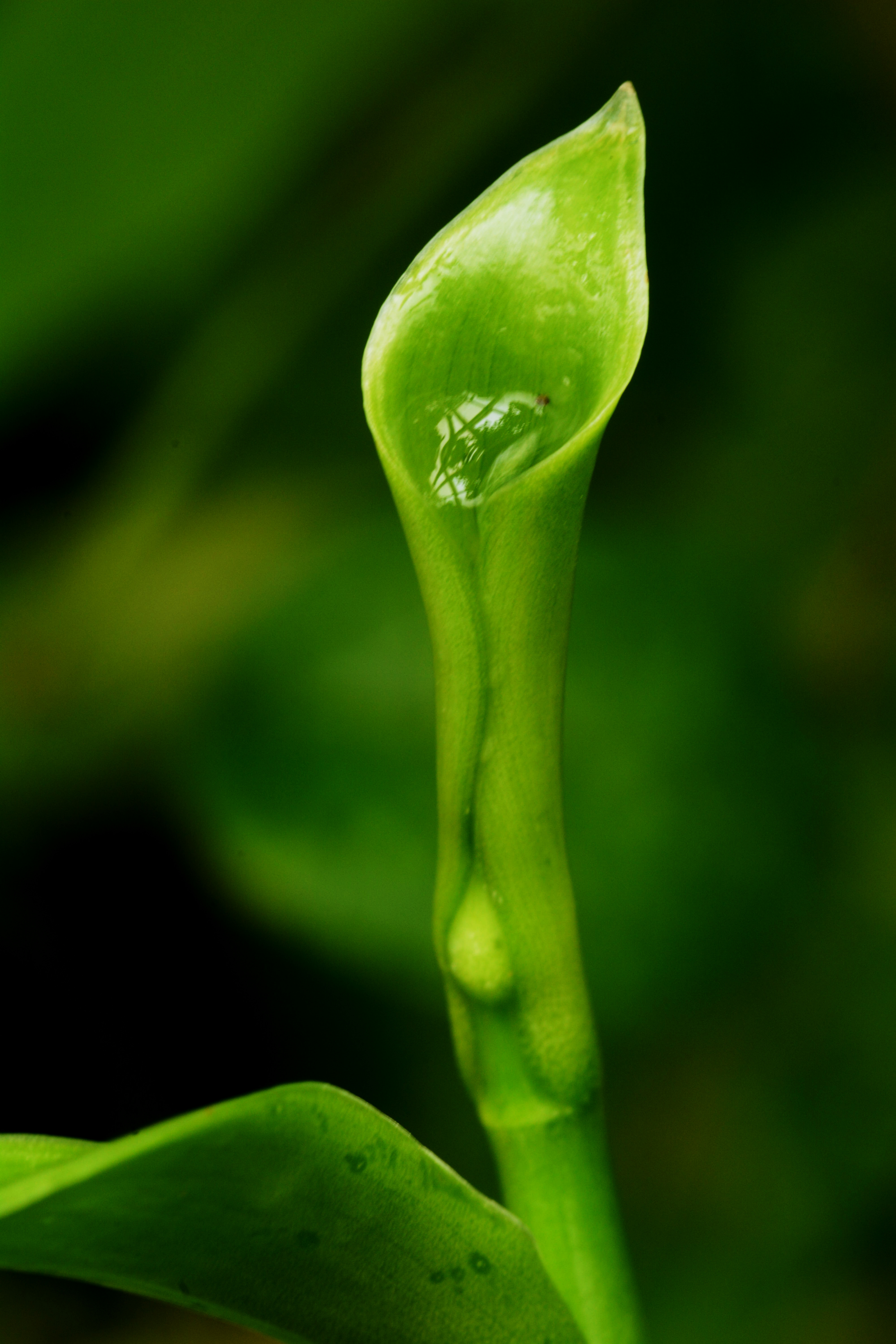 Vanilla